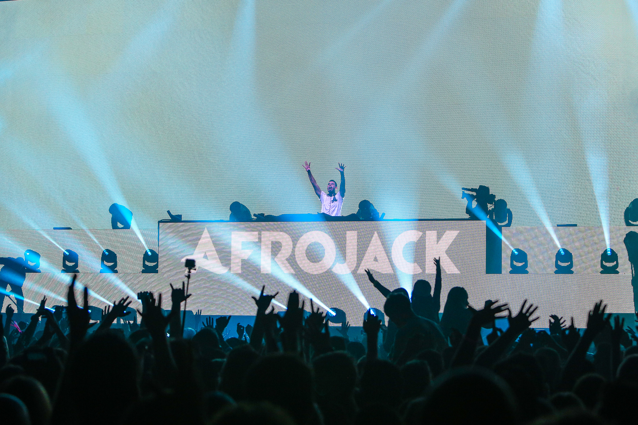 This photo was taken at Afrojack's concert in the Ziggo Dome in Amsterdam on October 17, 2014